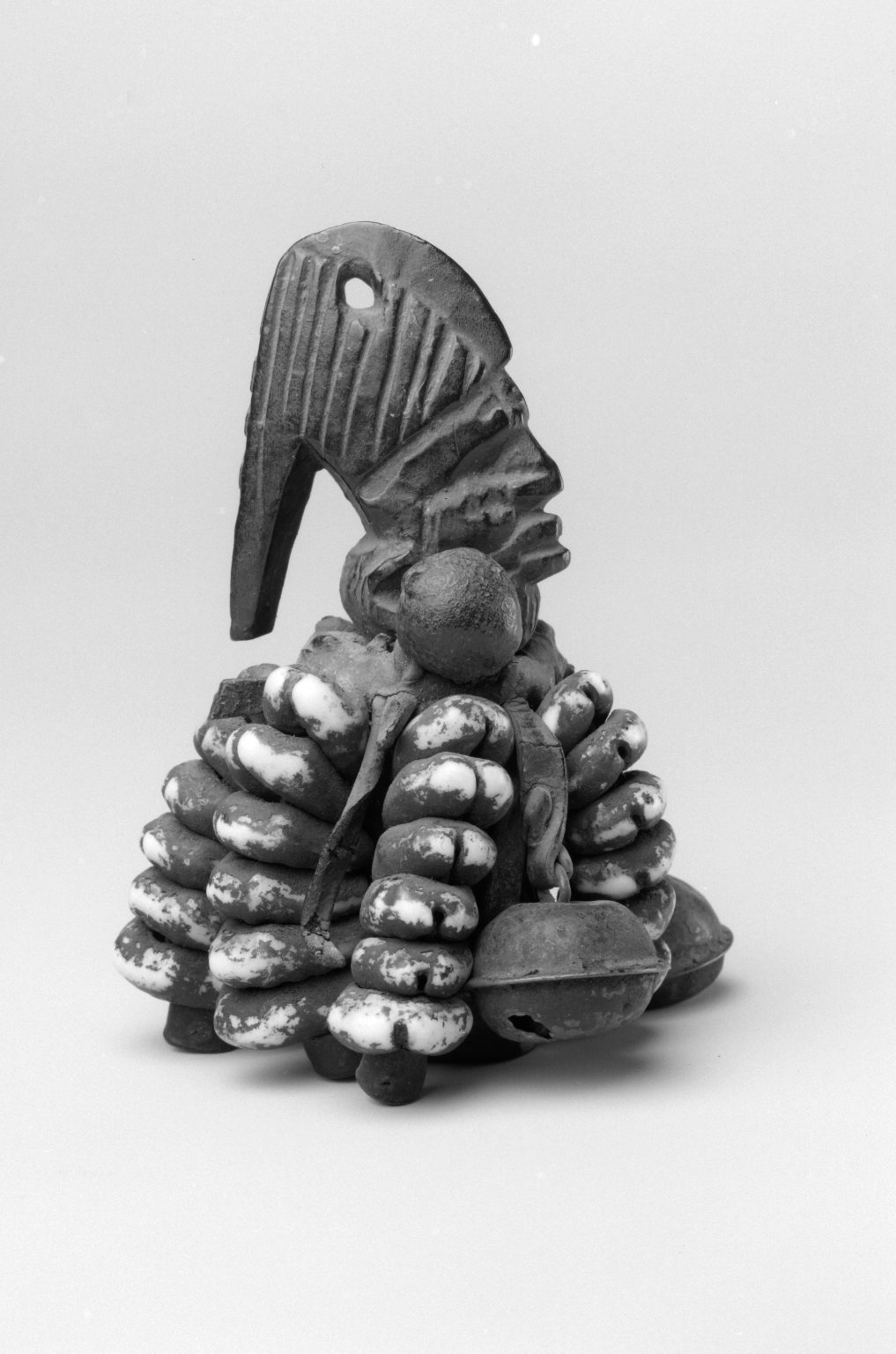 Image for Trickster (Ogo Elegba)